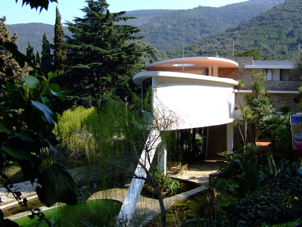 Elba island